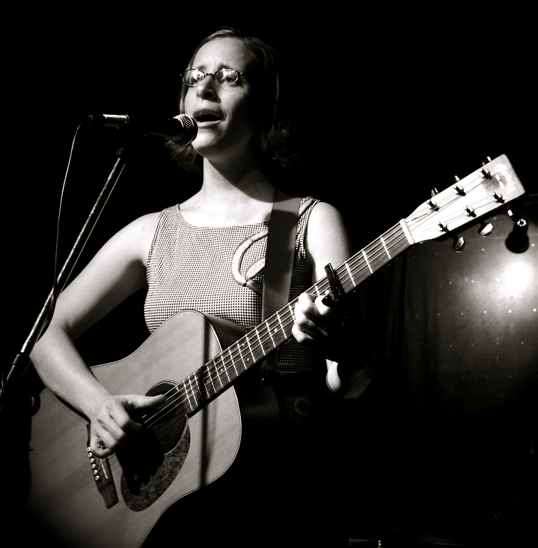 Laura Veirs playing at walter's on washingtonlaura veirs